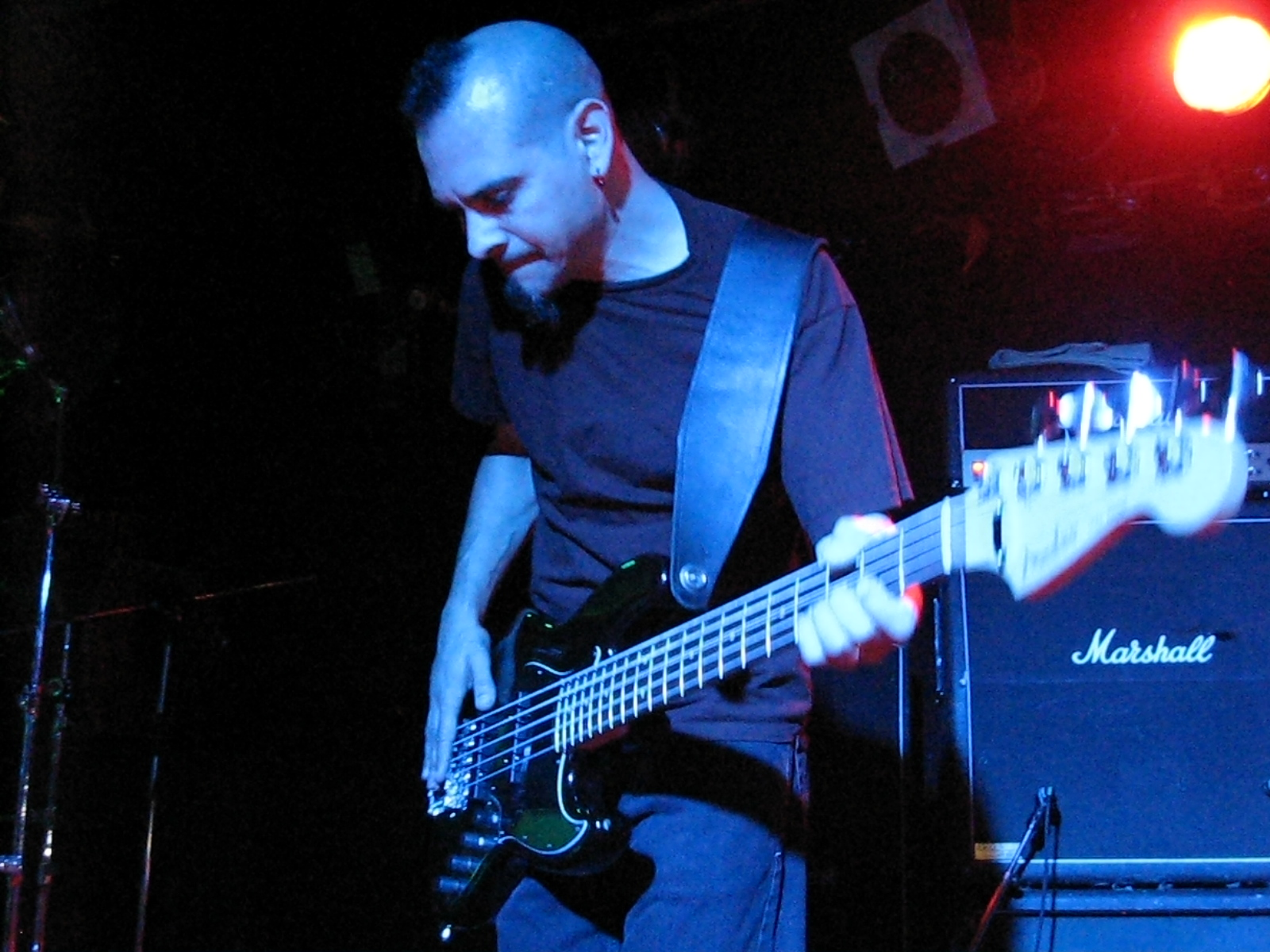 Joey Vera from Fates Warning at The Underworld in Camden, 2007-11-21.